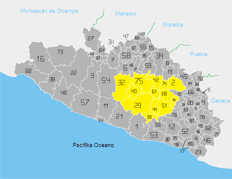 locator map; Region Centro in the mexican state Guerrero